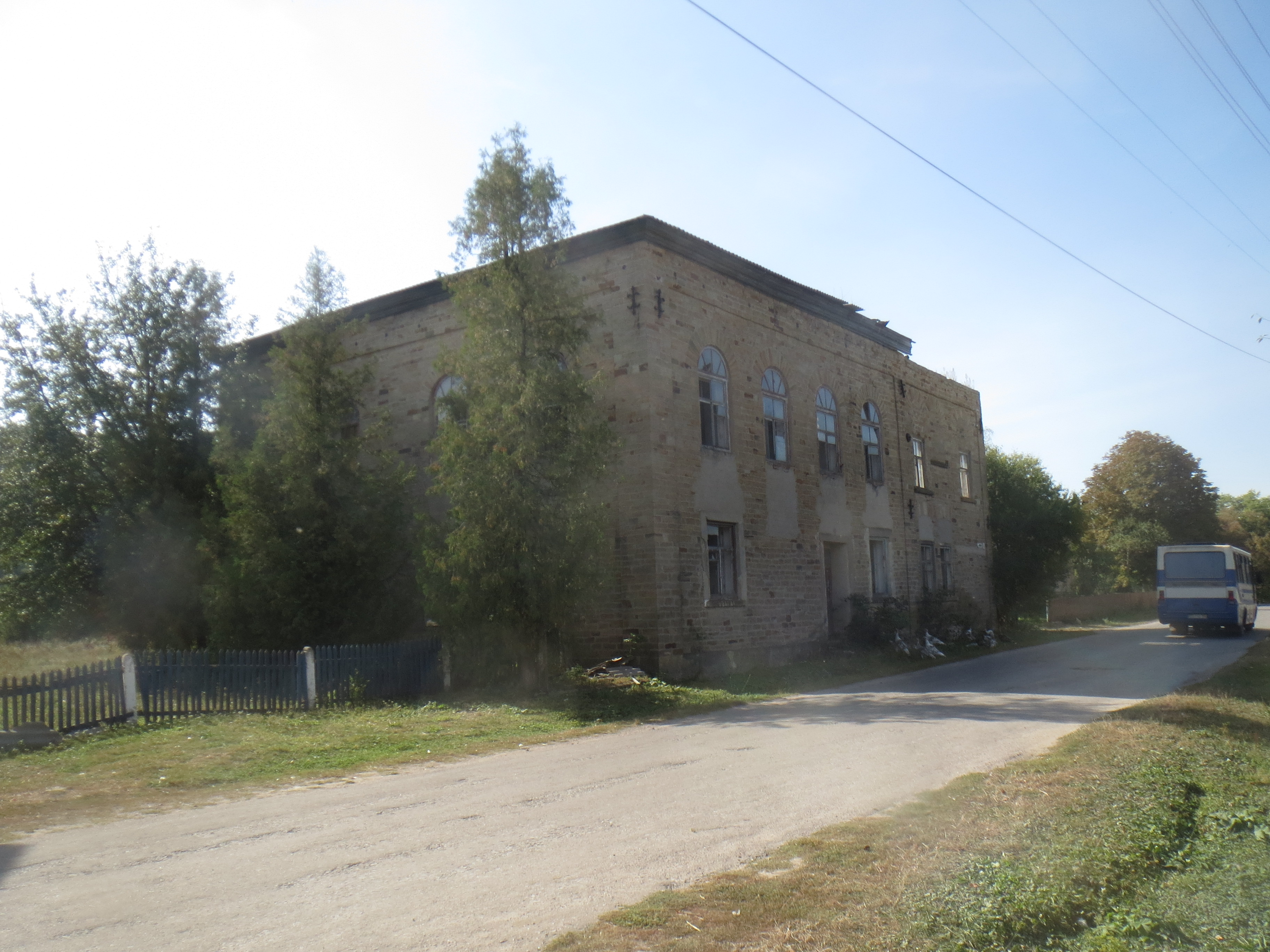 Budaniv Synagogue (1) Sept. 2018